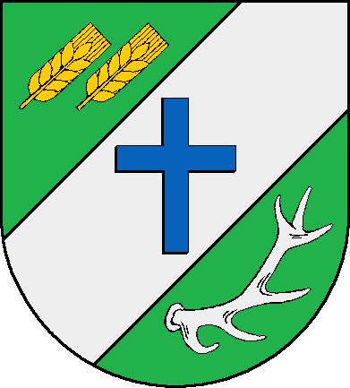 Coat of arms of the municipality Mönkloh in Schleswig-Holstein, Germany.